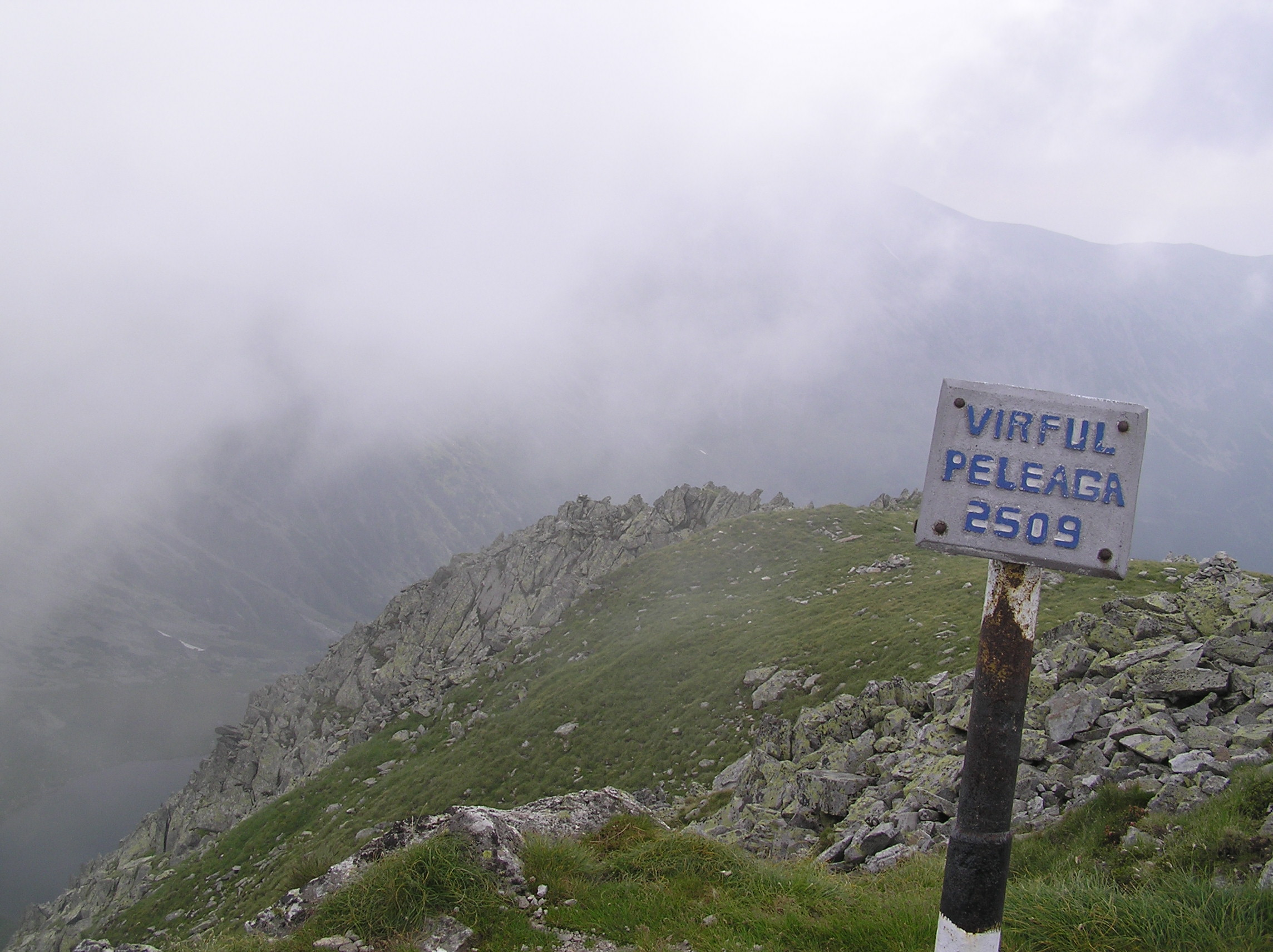 The highest mountain in Retezat, vf. Peleaga 2509m